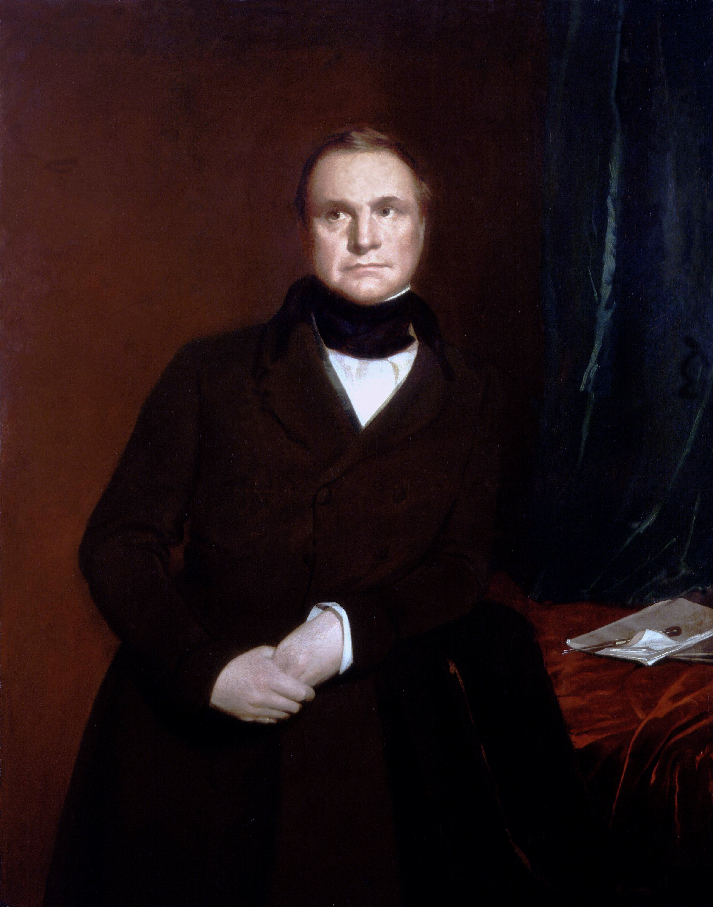 Charles Babbage, by Samuel Laurence (died 1884). All images in this batch have been confirmed as author died before 1939 according to the official death date listed by the NPG.